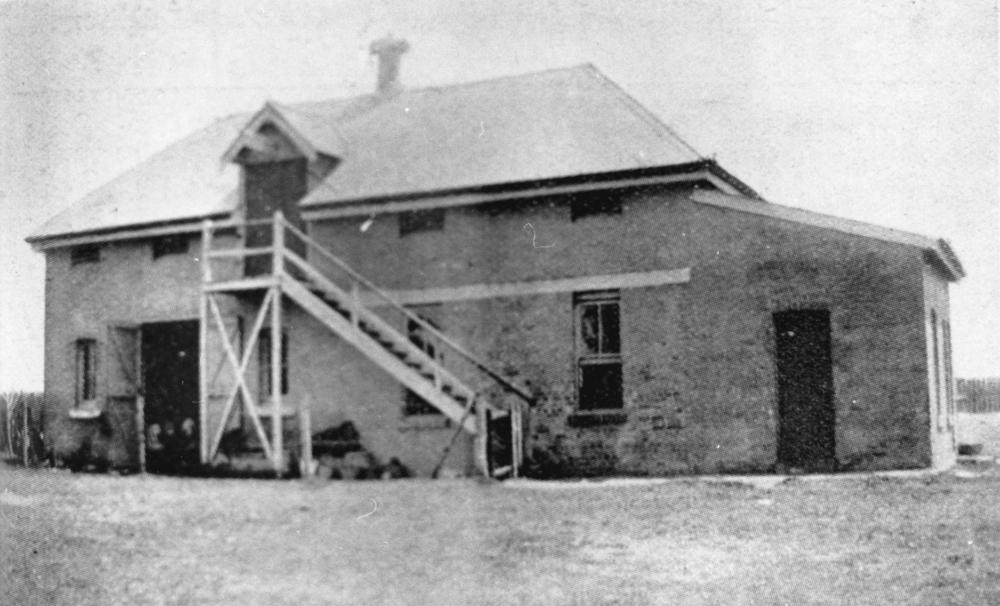 Old Stables, part of the residence, Rhynadarra, ca. 1931 This building was known as The Old Stables. It was used as stables when the original home Rhyndarra was built in 1888 for W. W. Williams. In 1897, Rhyndarra was taken over by the Salvation Army as a hostel.The building was used as a schoolroom for the Salvation Army Home.